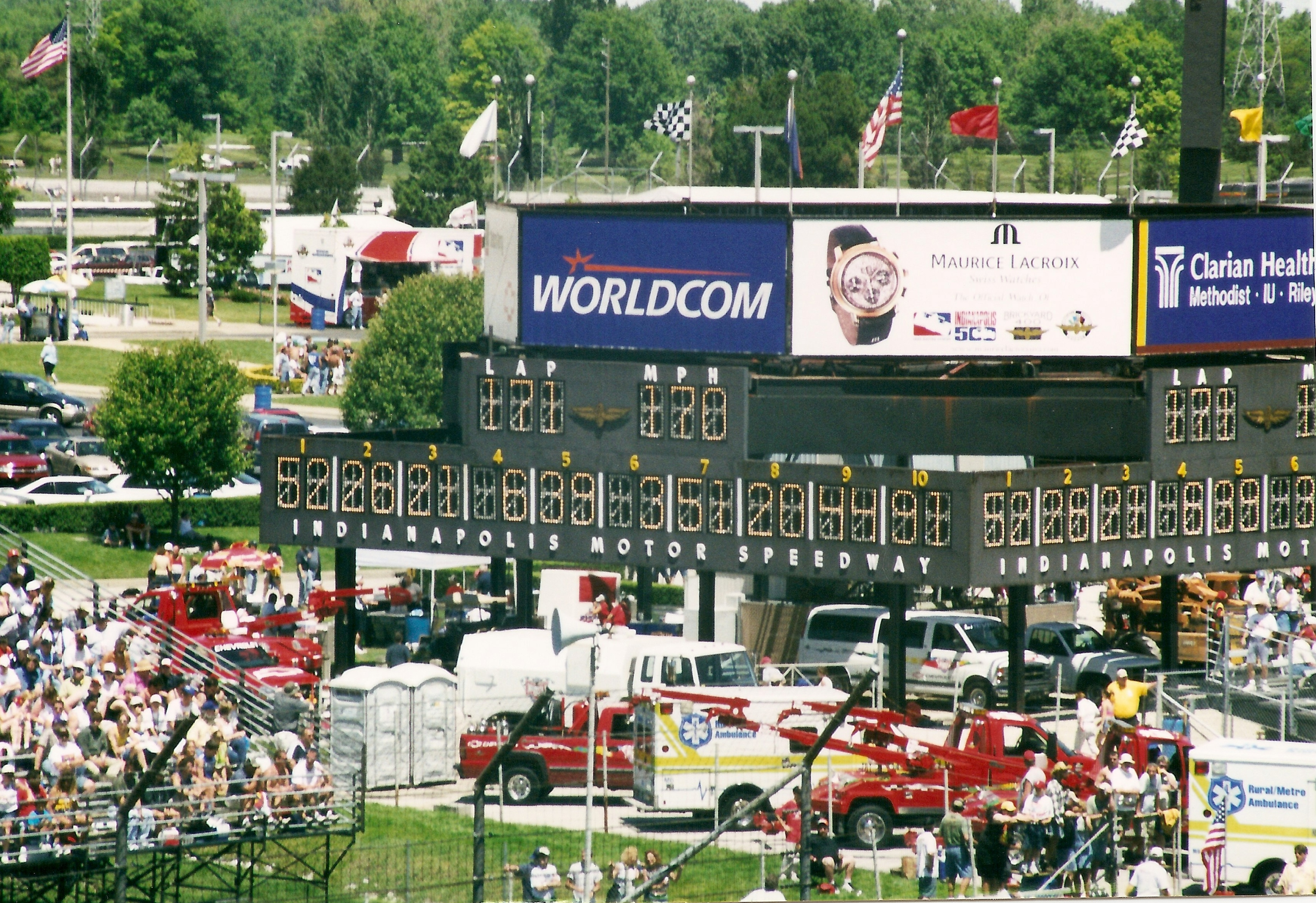 Scoreboard during the 2002 Indianapolis 500